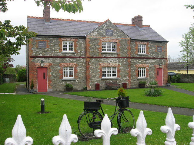 Old School at Tallanstown, Co. Louth Tallanstown National School of 1840.